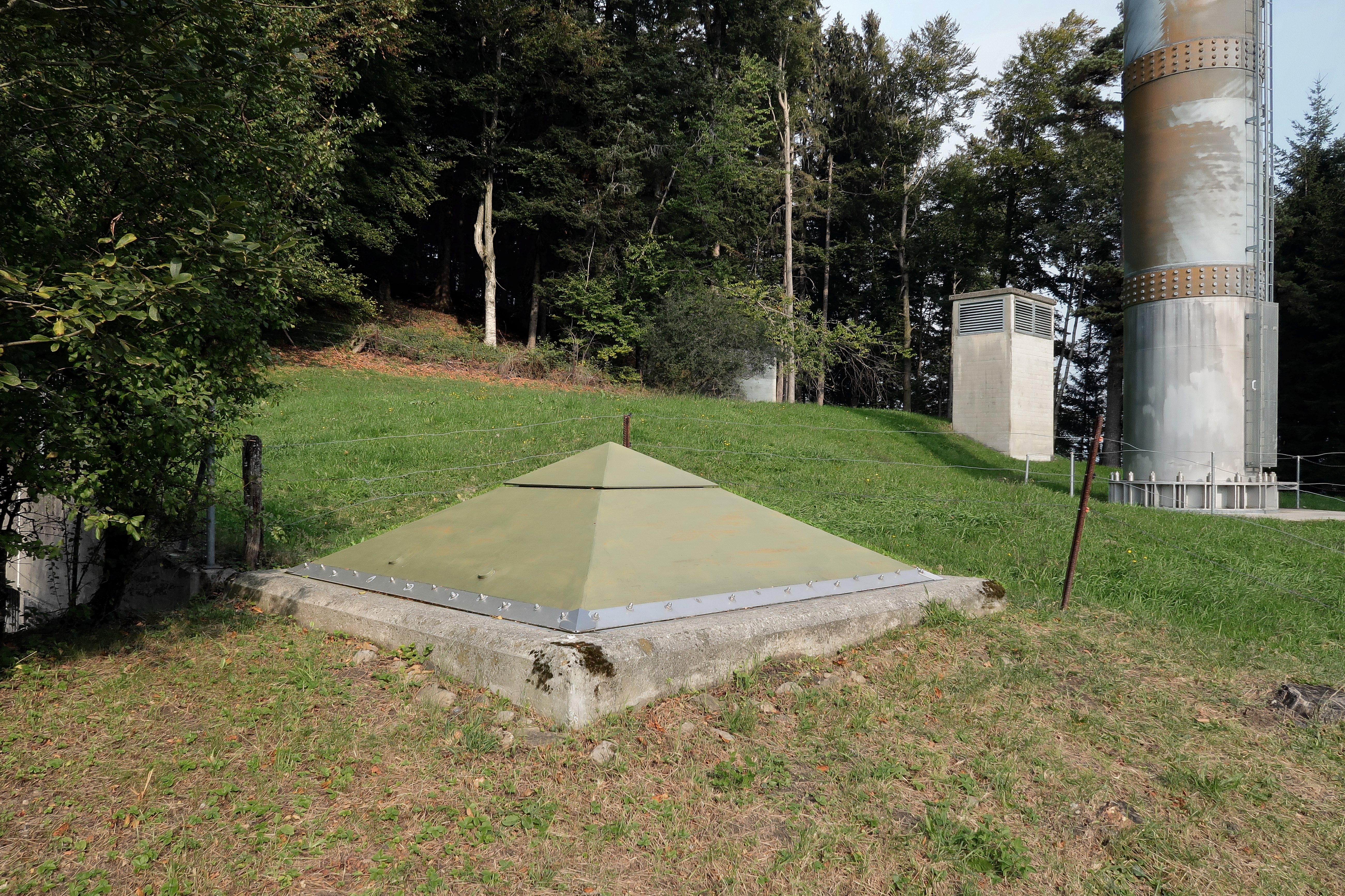 In the foreground, the cover of the emergency antenna and in the background the normal transmission mast, whose function takes over the IBBK telescope antenna in case of destruction. The system was planned in the 70s under the name UKW 77 and implemented from 1980 on. The plant in the photo was built at the beginning of the 90s. In earlier times there were still mobile radio stations of the army on trucks called 'Grandmothers' by the soldiers. The future of this system is still open, but it is questioned, also because of the costs. This example shows how well Switzerland is prepared in relation to safety for all sorts of cases, and that should not be abandoned. Switzerland, Sep 29, 2018. (5/5)